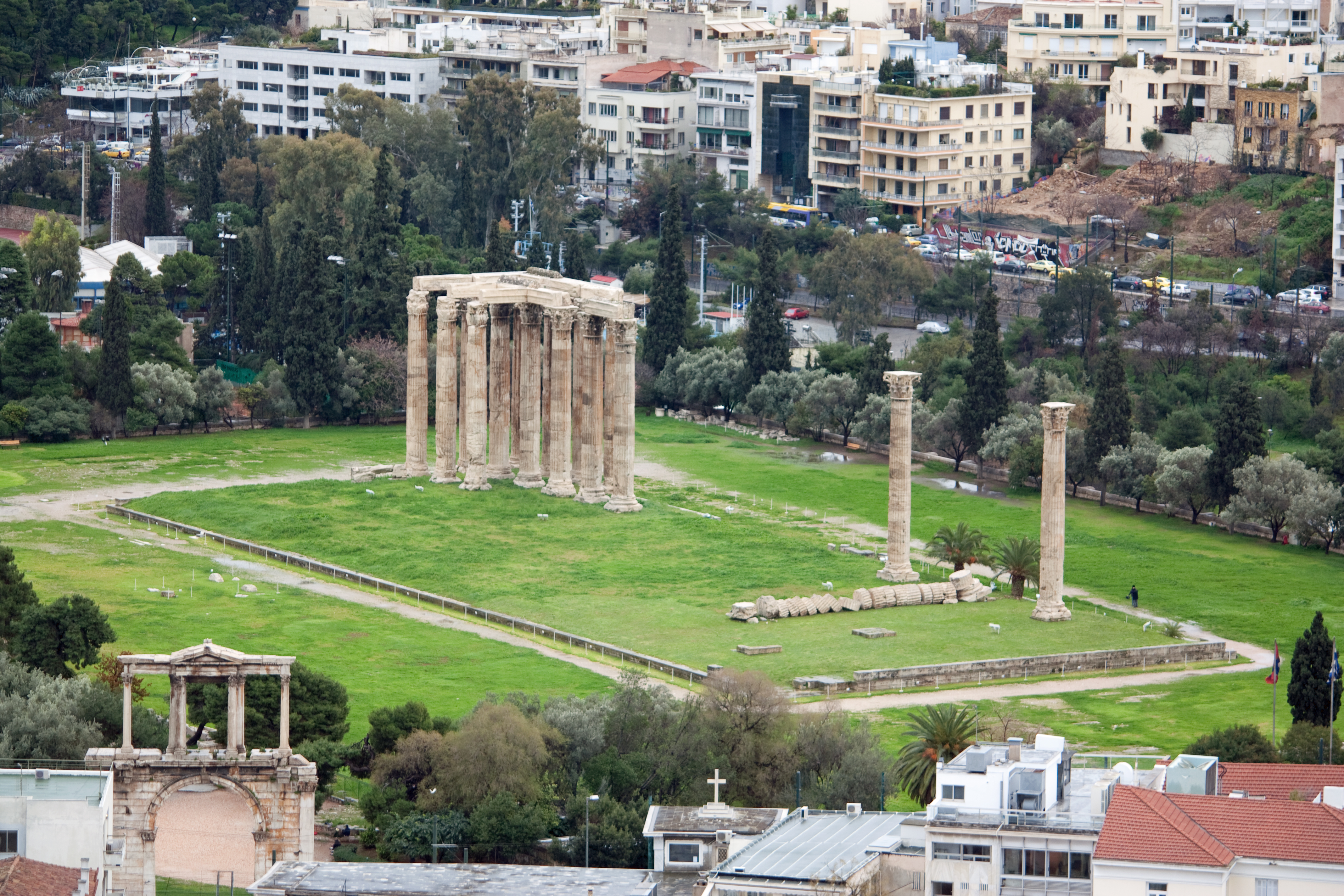 Temple of Zeus in Athens, Greece on a rainy day from the Acropolis. The Arch of Hadrian is in the foreground.